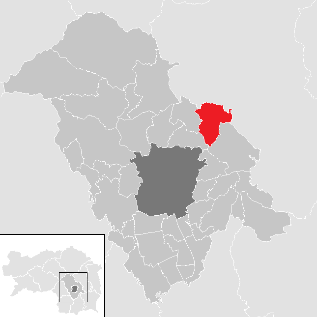 District Graz-Umgebung, Styria